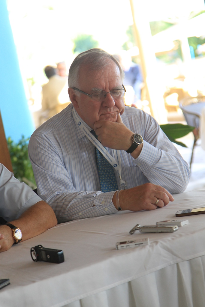 Walter Schwimmer at Rhodes Forum 2014 Preventing World War Through Global Solidarity: 100 Years On